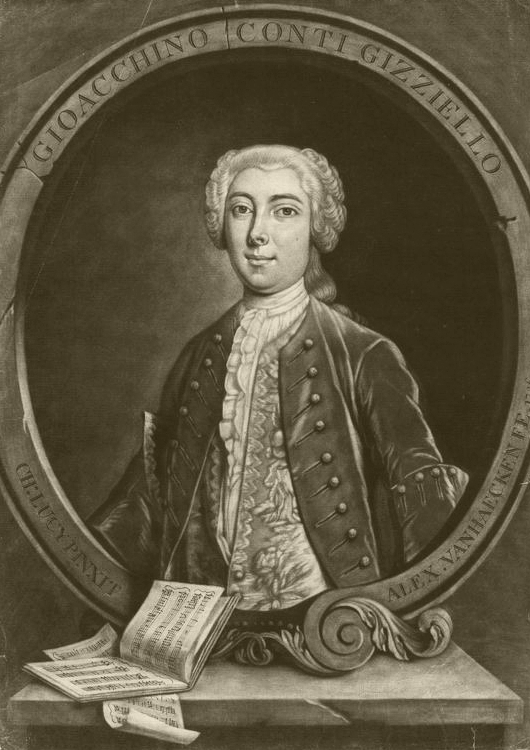 Italian opera singer Gioacchino Conti (1714-1761). Mezzotint by Alexander Van Haecken (1701-1758) after Charles Lucy (1692-ca. 1736).